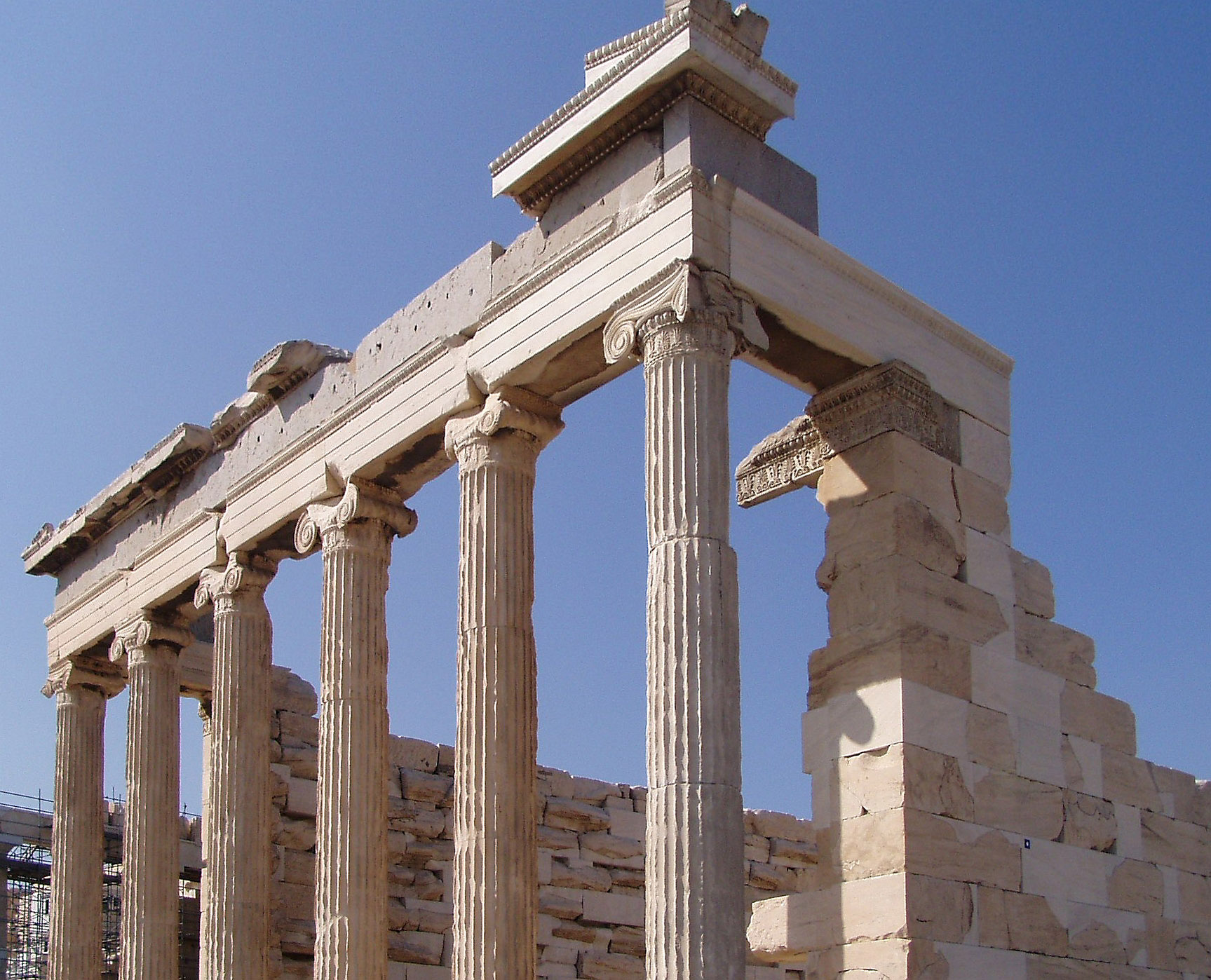 This is the Erechtheum at the Acropolis in Athens.